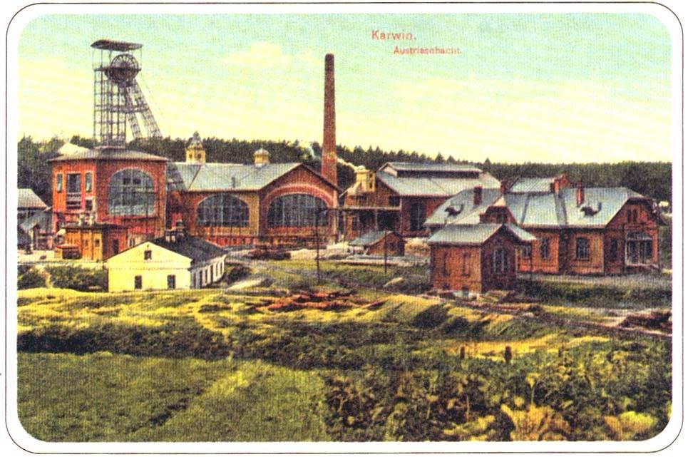 Colliery Barbora in Karviná (Czech Republic) in 1911